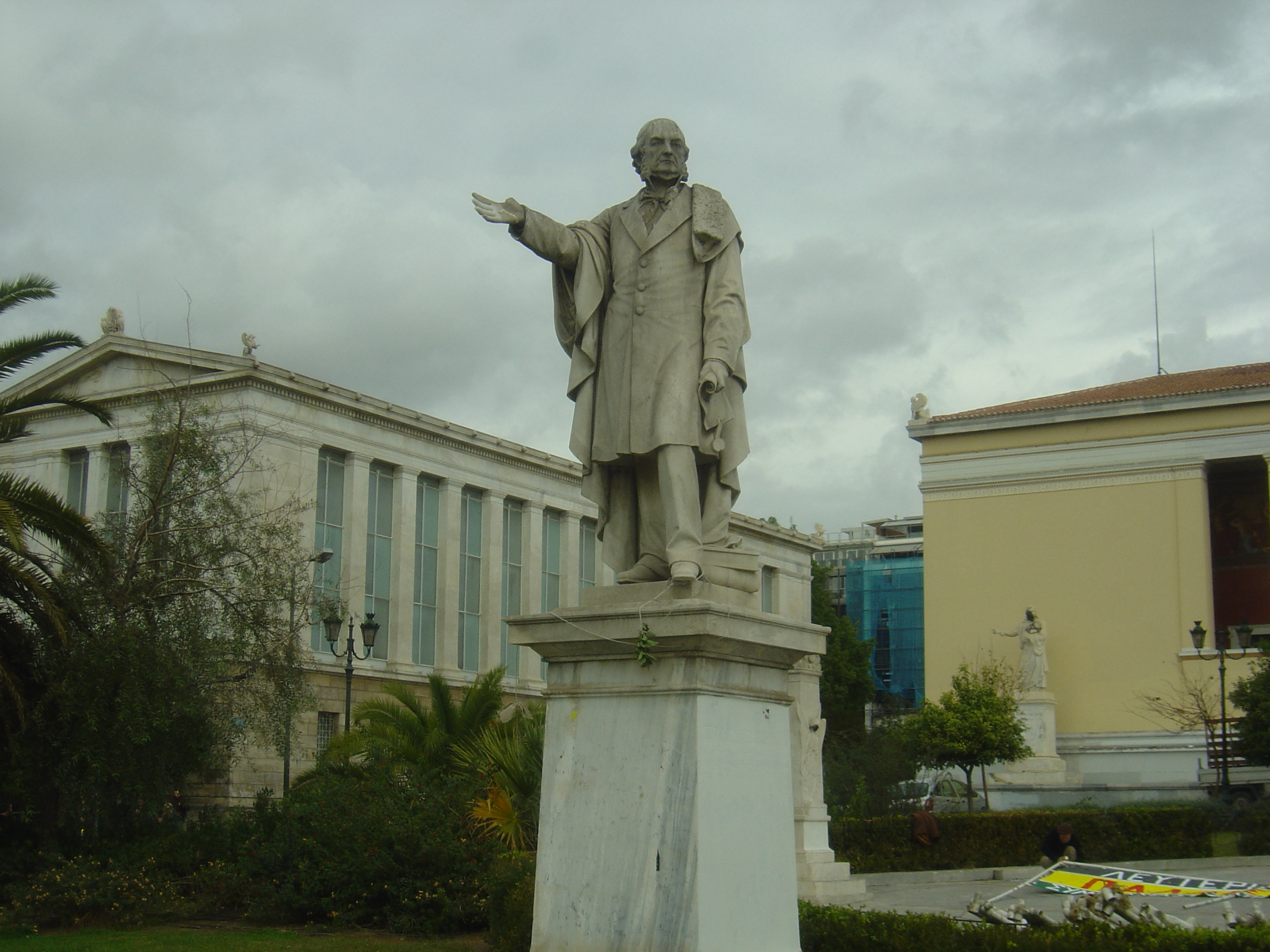 Statue of William Gladstone (Athens)